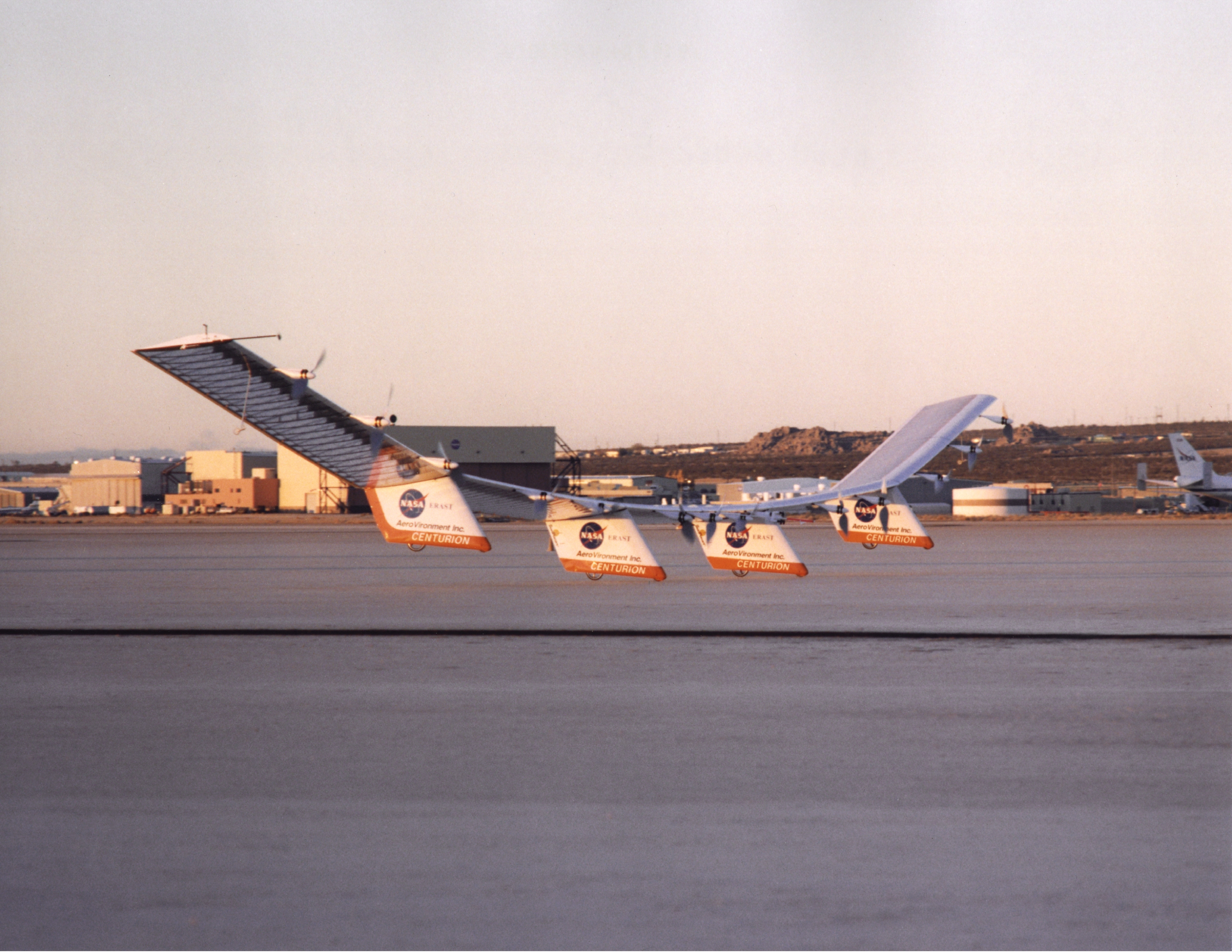 Centurion taking off from Rogers Dry Lake at Edwards AFB / NASA Dryden